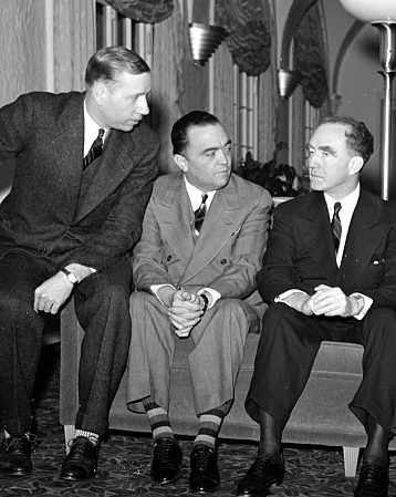 John Bugas, J. Edgar Hoover, and Frank Murphy